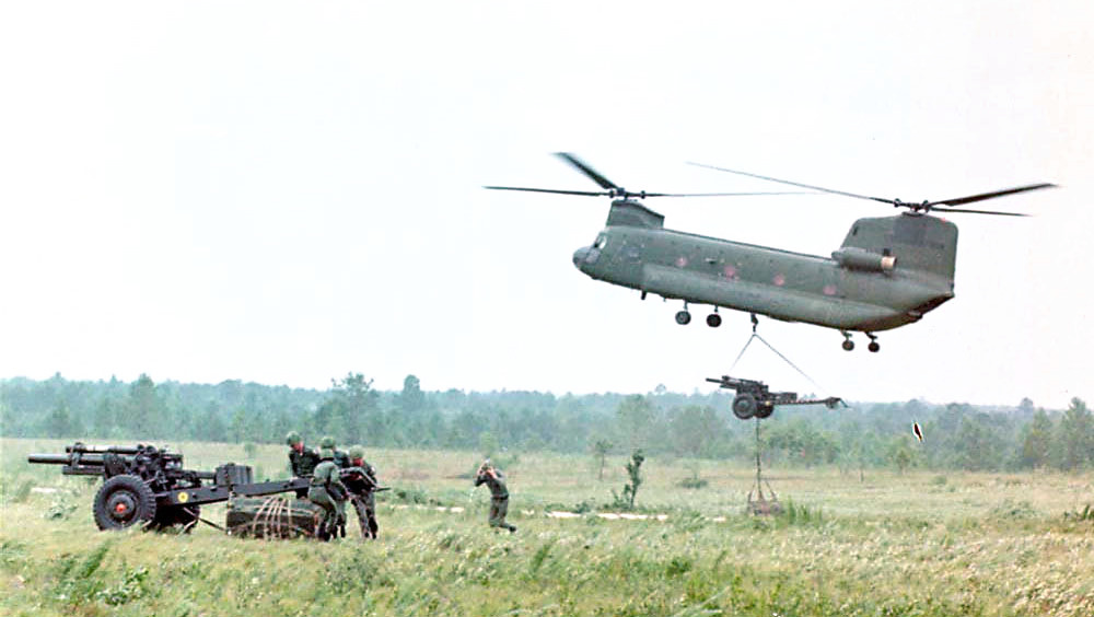 CH-47 Chinook Delivering 105-mm Howitzer (Towed) with Ammunition Pallet